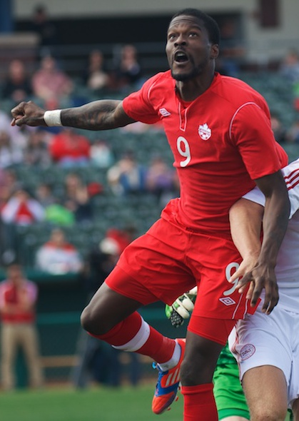 Canadian forward Tosaint Ricketts drops back to help on a corner and rises above Andreas Cornelius to head the ball to safety.